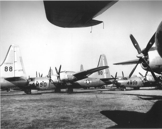 B-32 "Dominator" aircraft awaiting destruction at Walnut Ridge, Arkansas, 1946.